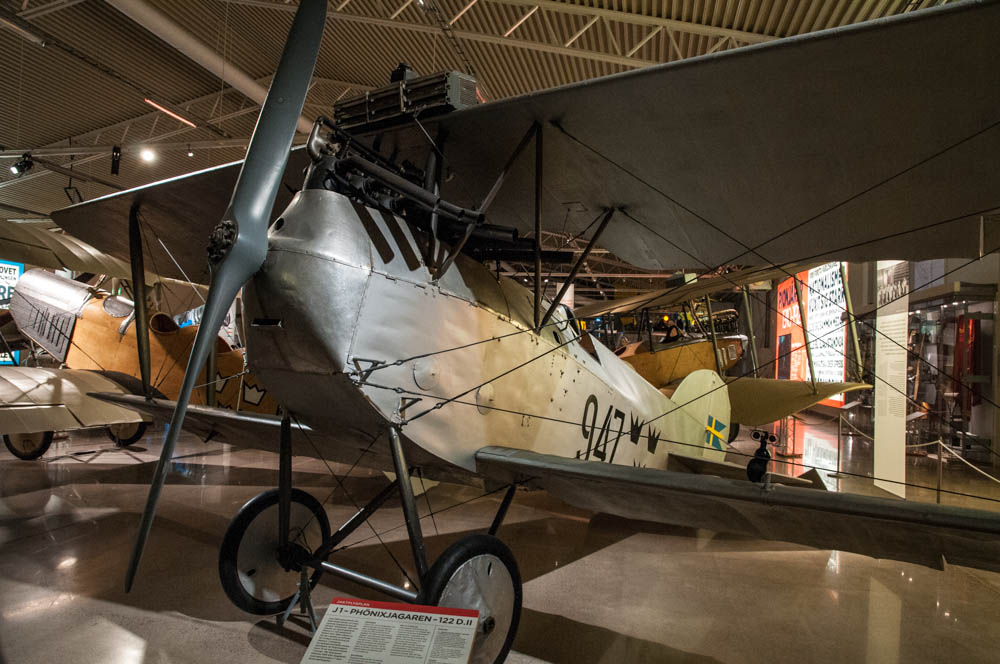 Phönix D.III at Flygvapenmuseum in Linköping, Sweden.